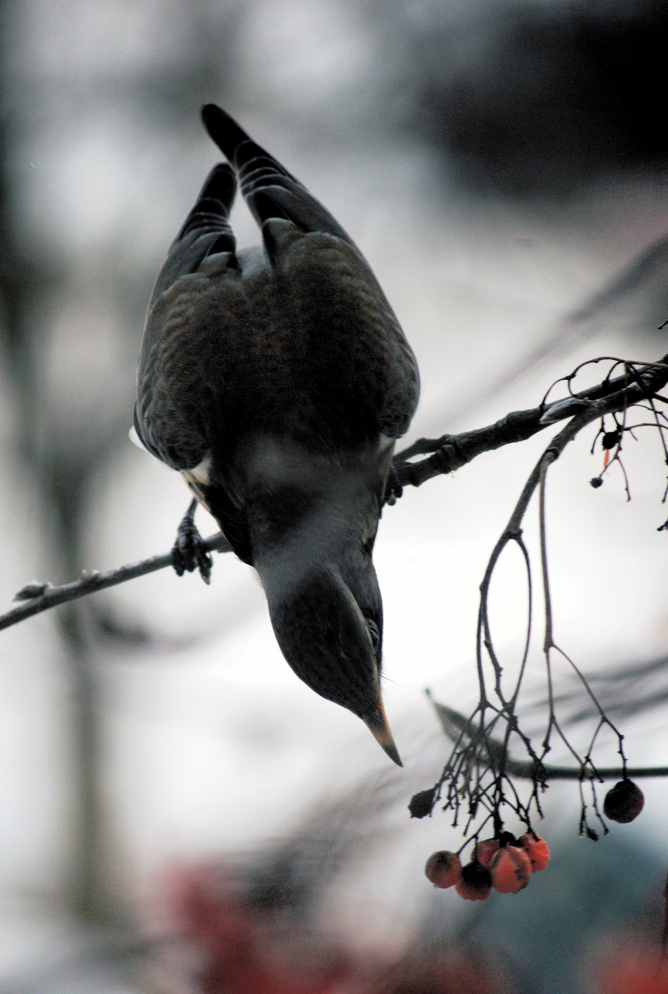 Fieldfare in front of the windowEsperanto: Griza turdo antaŭ la fenestroGalego: Tordos reais en fronte dunha fiestra